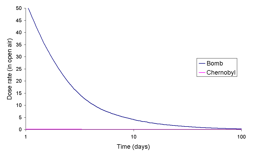 Calculated relative gamma dose rates due to bomb and chernobyl fallout normalised for a given cesium-137 level, which is in effect the dose rate at day 10000